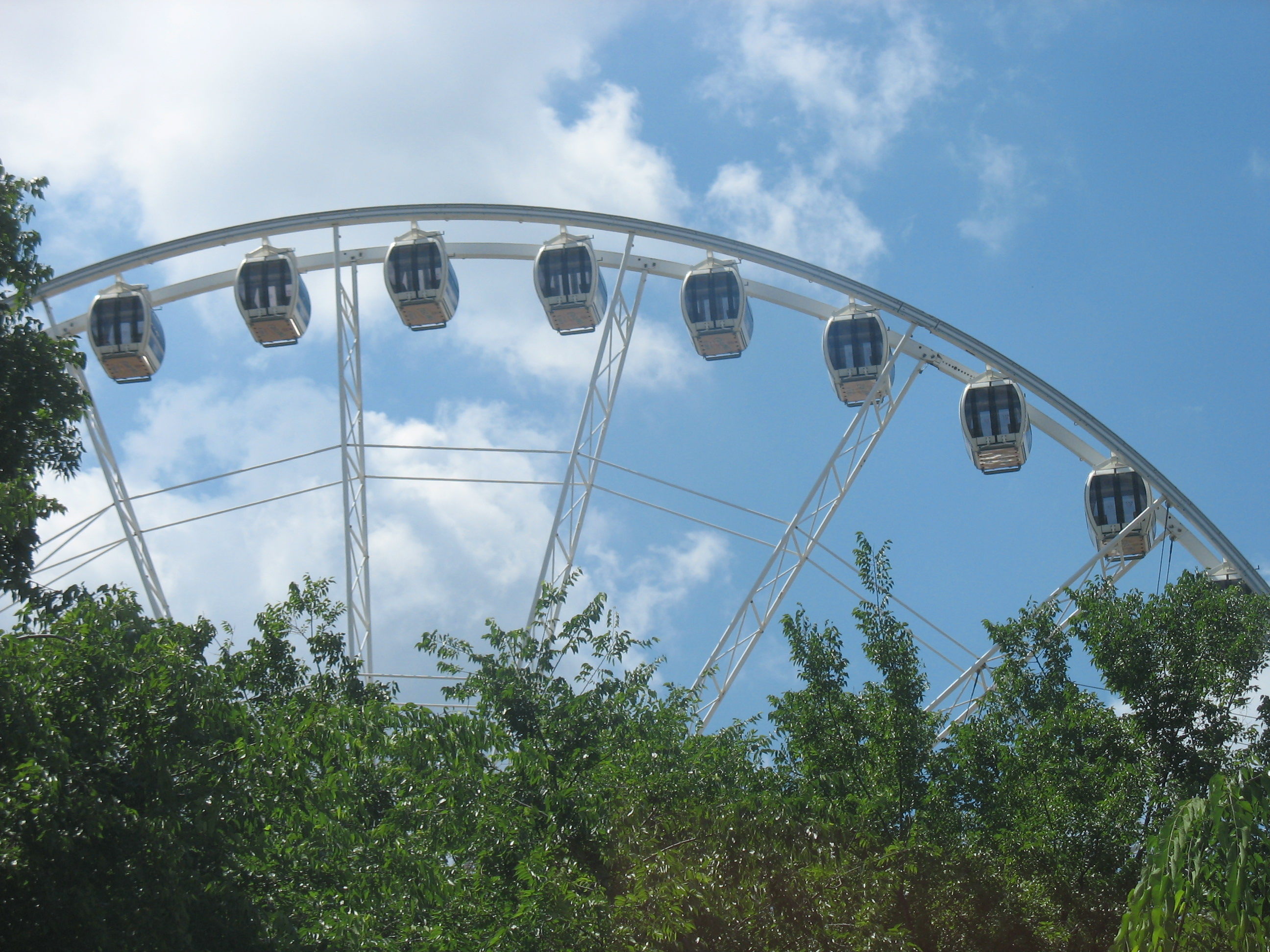 The Ferris wheel (not of Vienna)